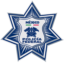 Mexico Federal Police Shield